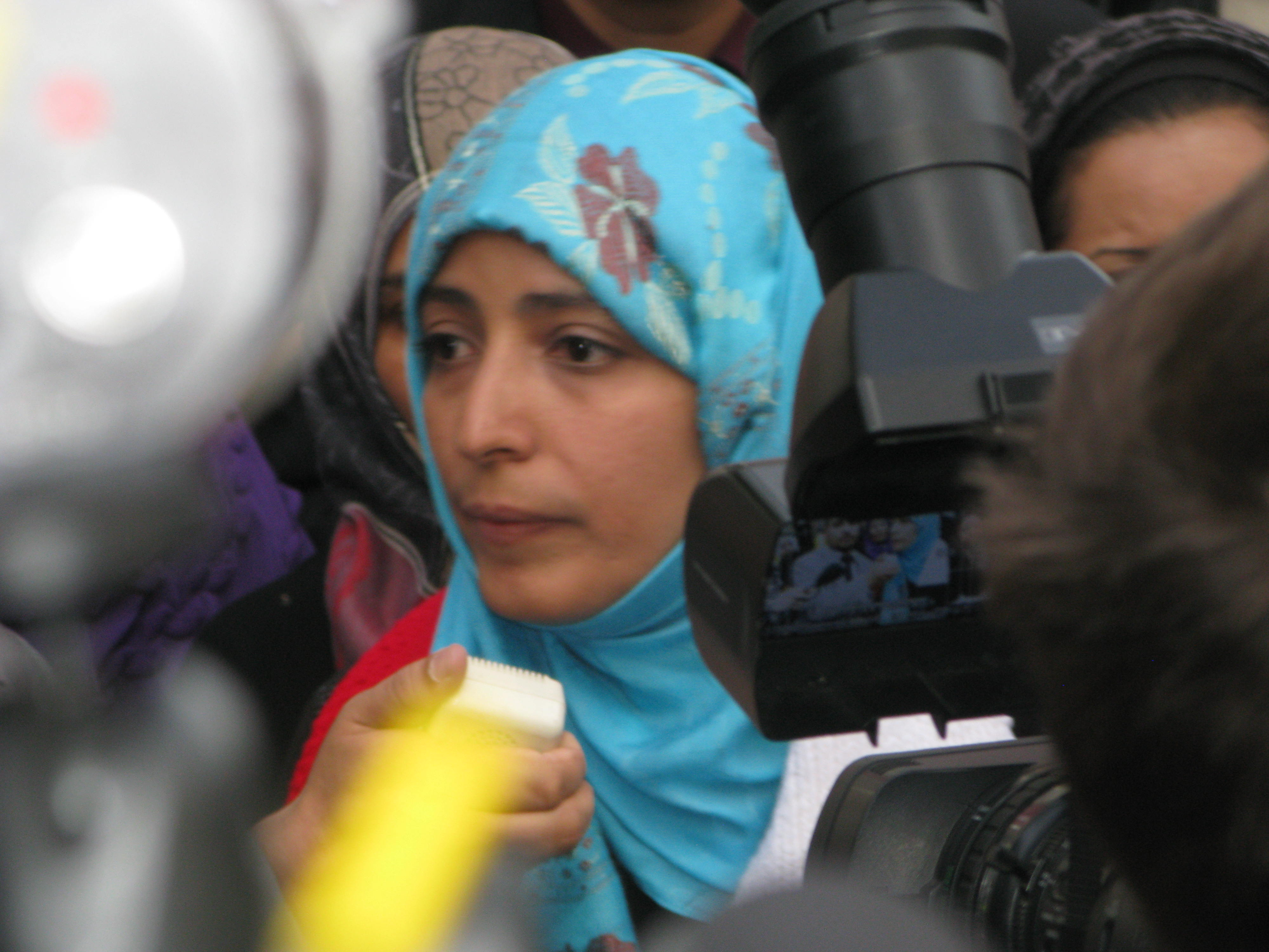 Nobel Peace Prize laureate Karman during interview by Inner City Press and other across from United Nations on October 18, 2011, before UN Security Council vote on resolution "based on" Gulf Cooperation Council deal including immunity for Ali Saleh